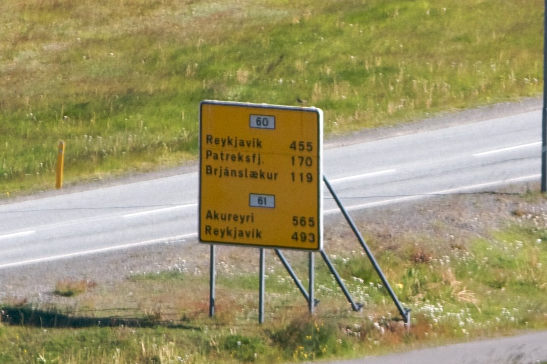 Sömuleiðis tekið af svölunum í Múlalandi. Also taken from my apartment in Ísafjörður, Iceland. The sign shows the distance in kilometers to Iceland's other major urban behemoths.